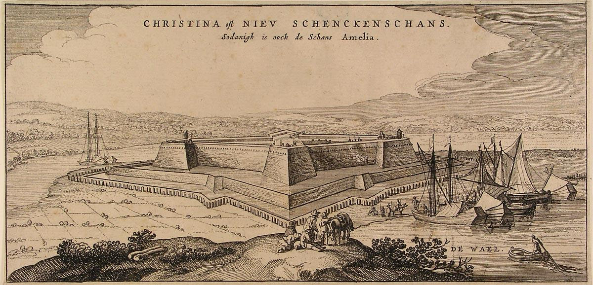 Nieuw Schenckenschans. Etching. 122 × 245 mm. Rotterdam, Museum Boijmans Van Beuningen Prentenkabinet (inv.no. BdH 8973 (PK)).